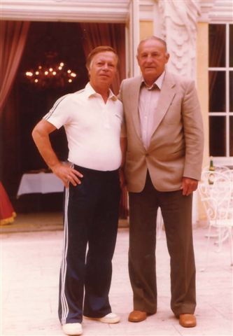 The german footballers Herbert Binkert (left) and Paul Oßwald (right)